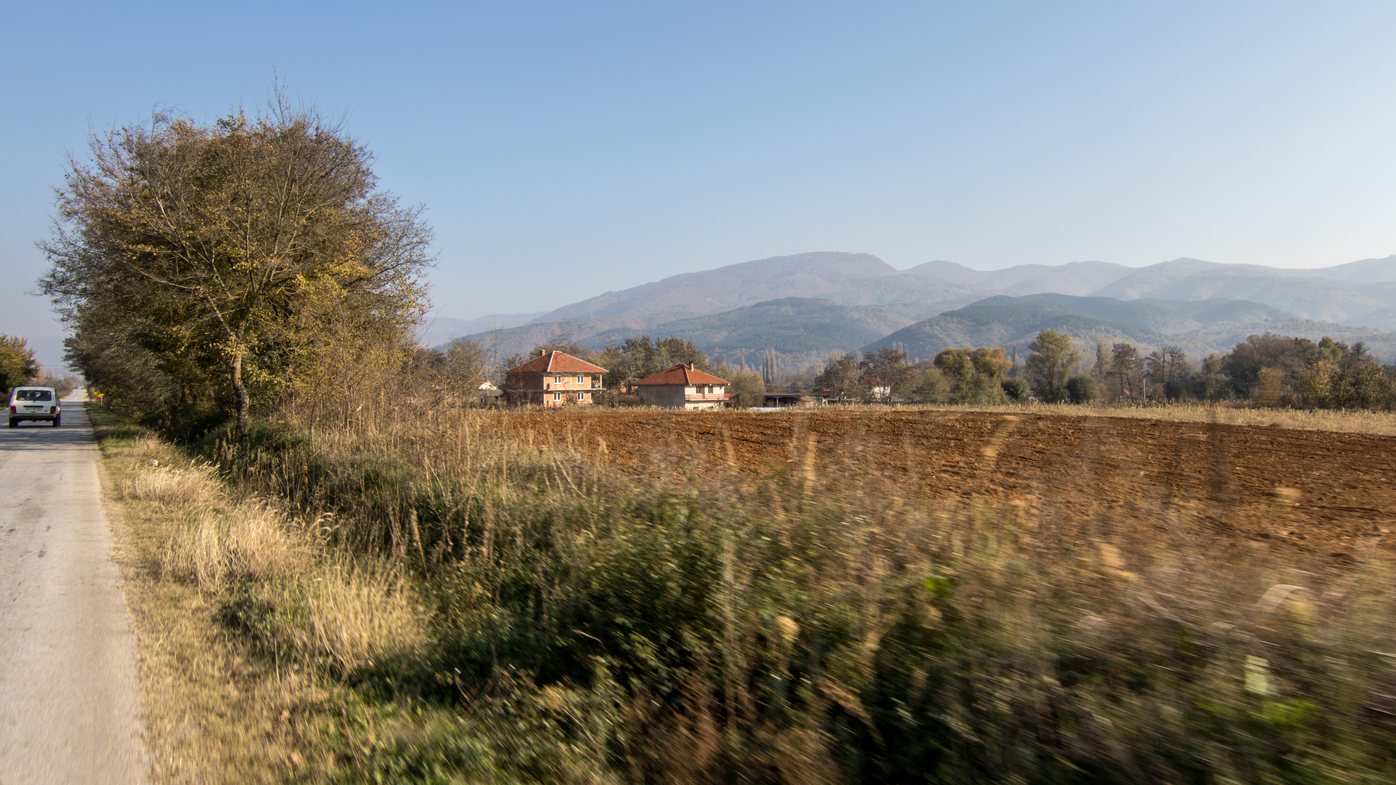 Part of the village Ljubinci